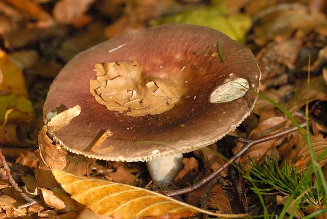 Russula spec. from Commanster, Belgium. The determination of the species shown in this picture has been verified.